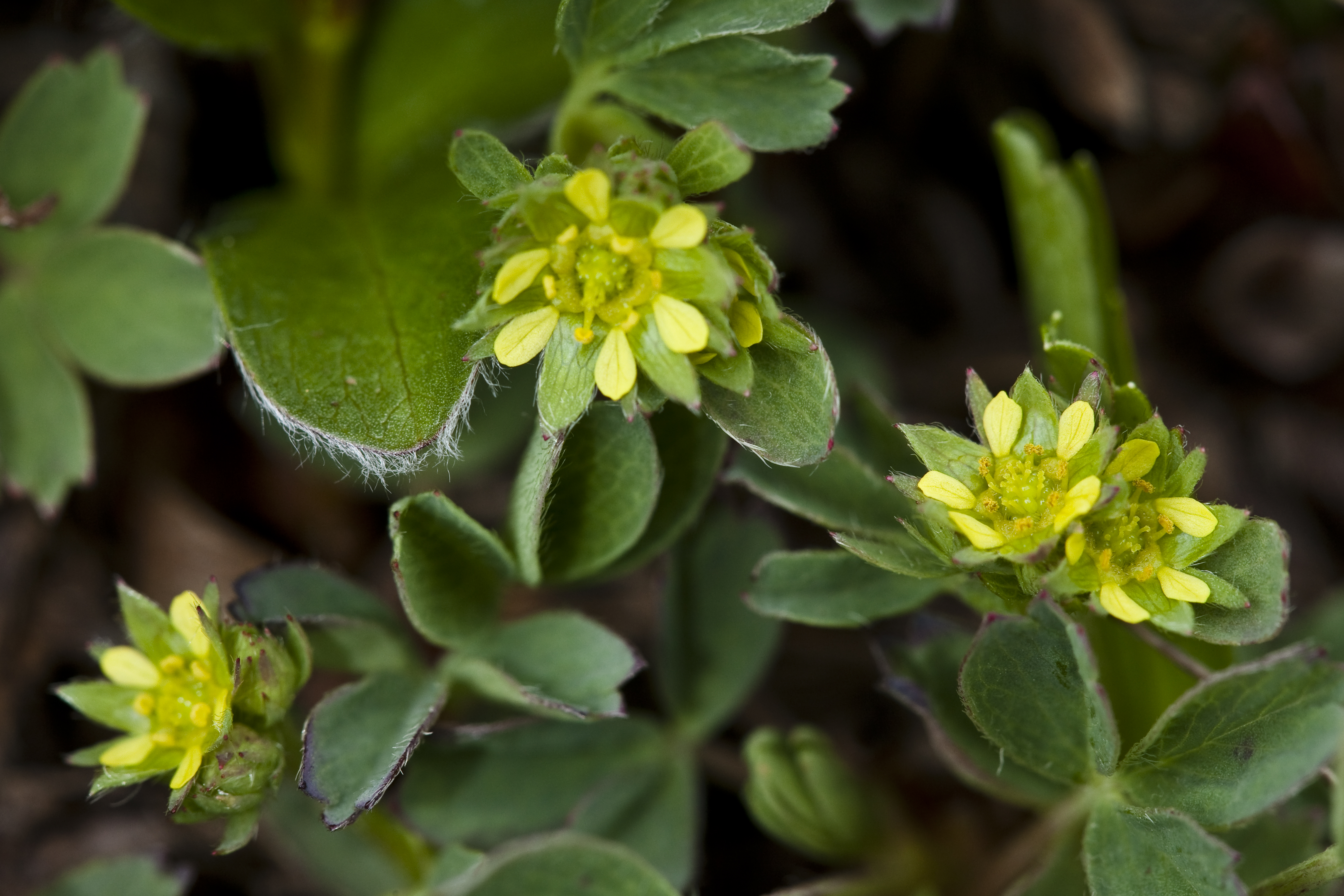 Sibbaldia procumbens, Denali National Park and Preserve, AK, USA